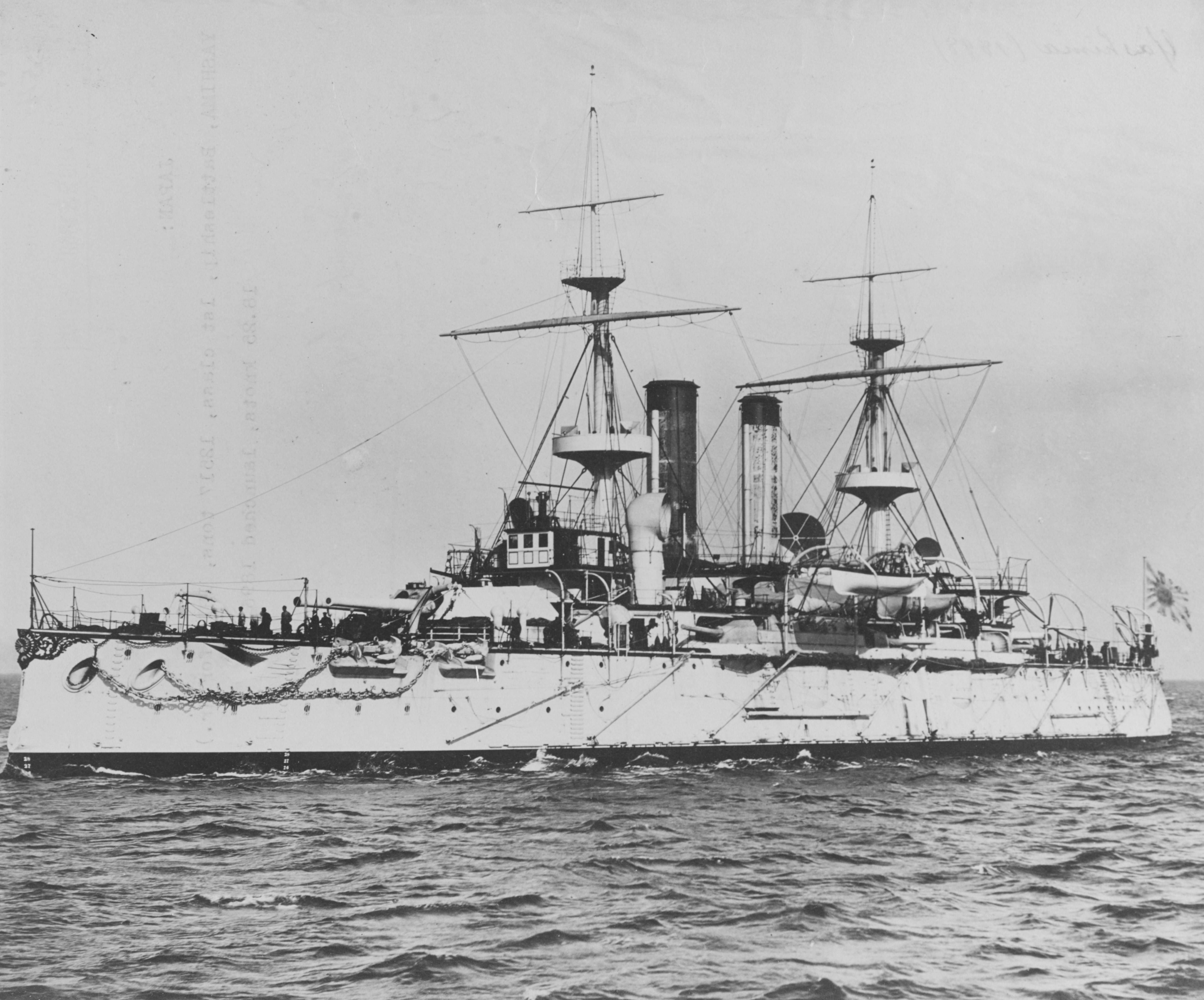 Picture of the Japanese battleship Yashima